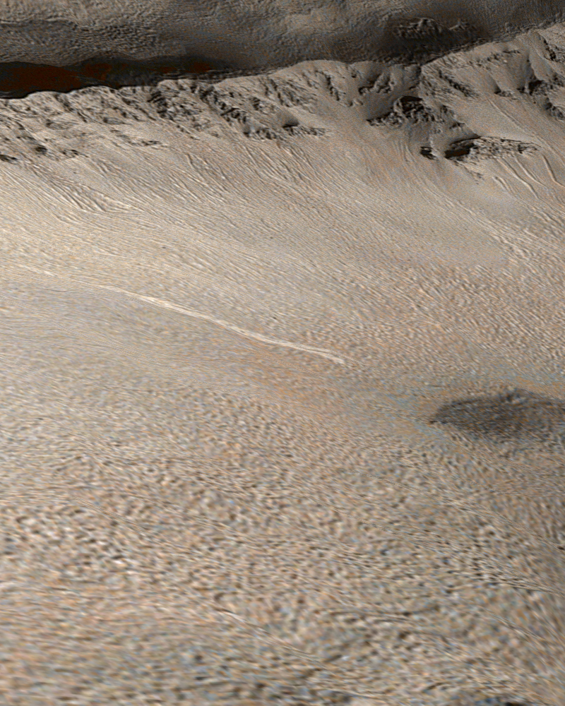 Water on Mars